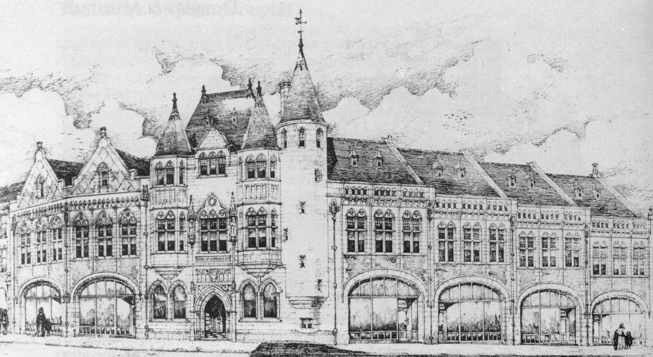 1=Scanned by the book by me. Drawing of the Bank Buildings, Charing Cross, Birkenhead in 1901